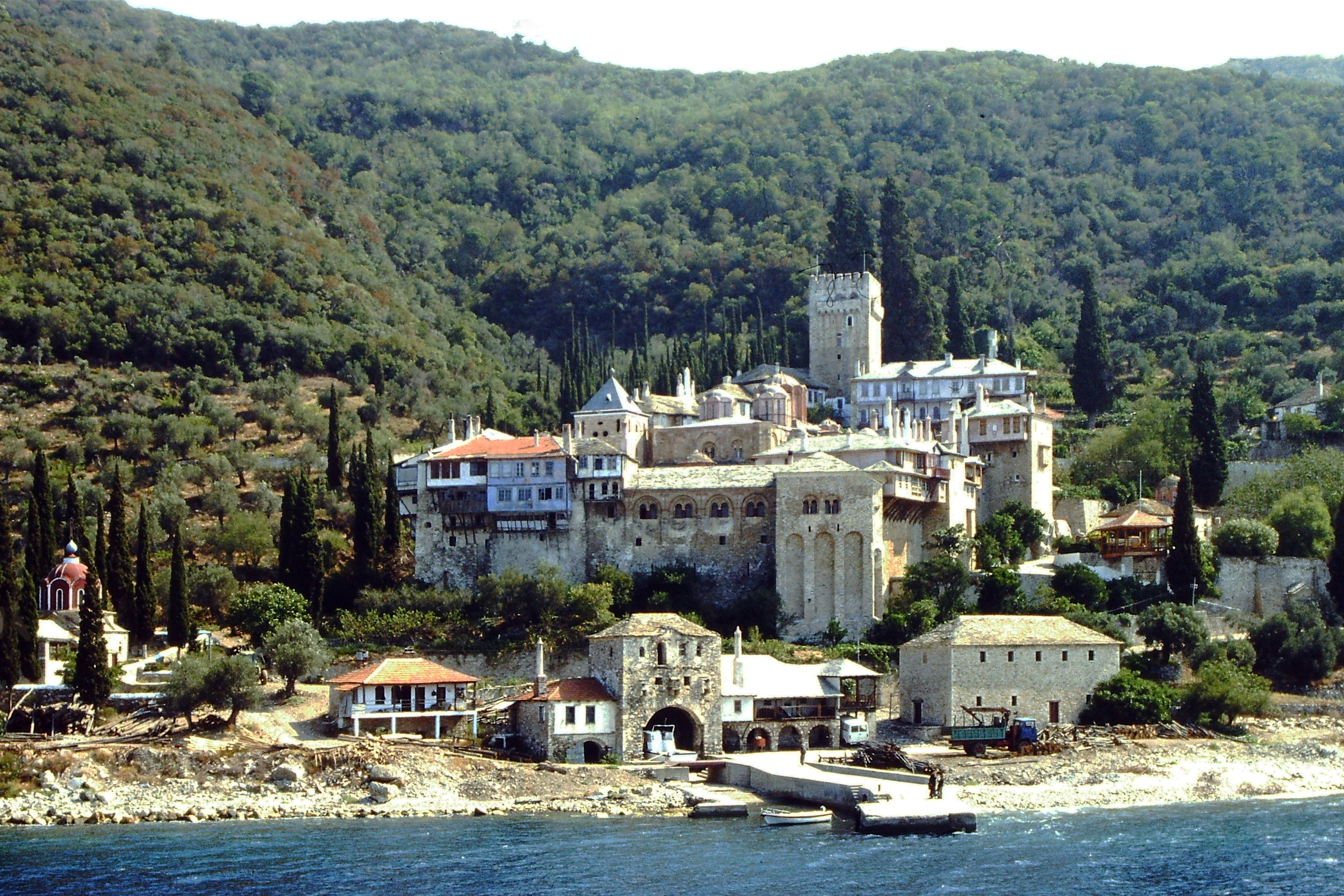 Monastery of Dochiariou. Picture taken in September, 1990